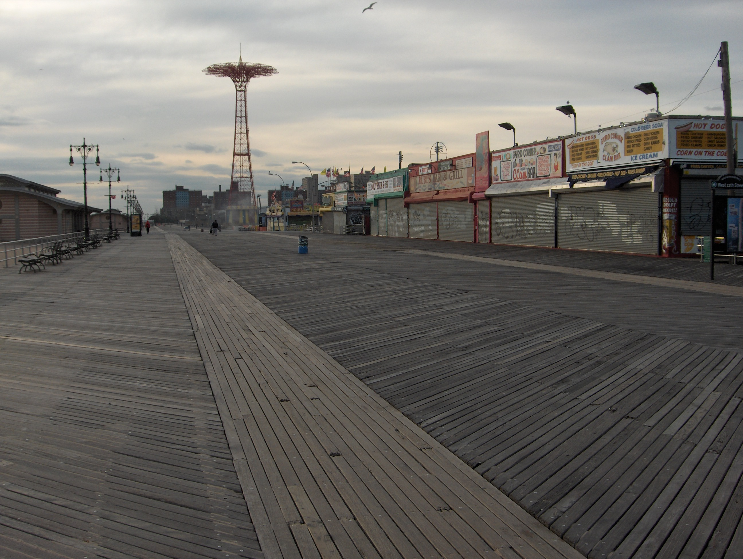 Coney Island boardwalk in the winter.